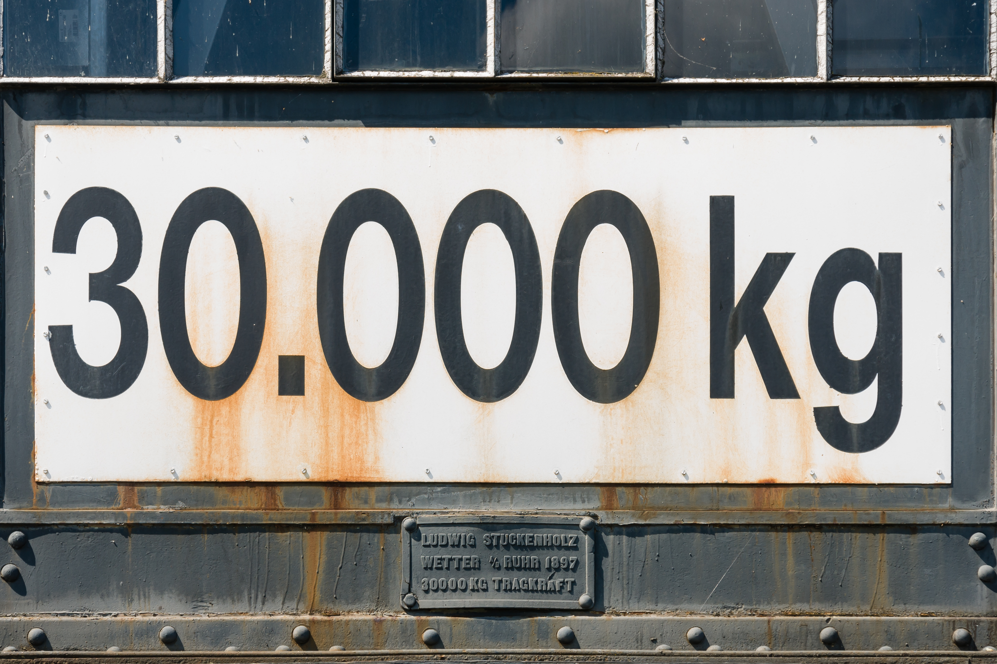 Cologne, Germany: Plaque at Harbour Crane No 34This is a photograph of an architectural monument.